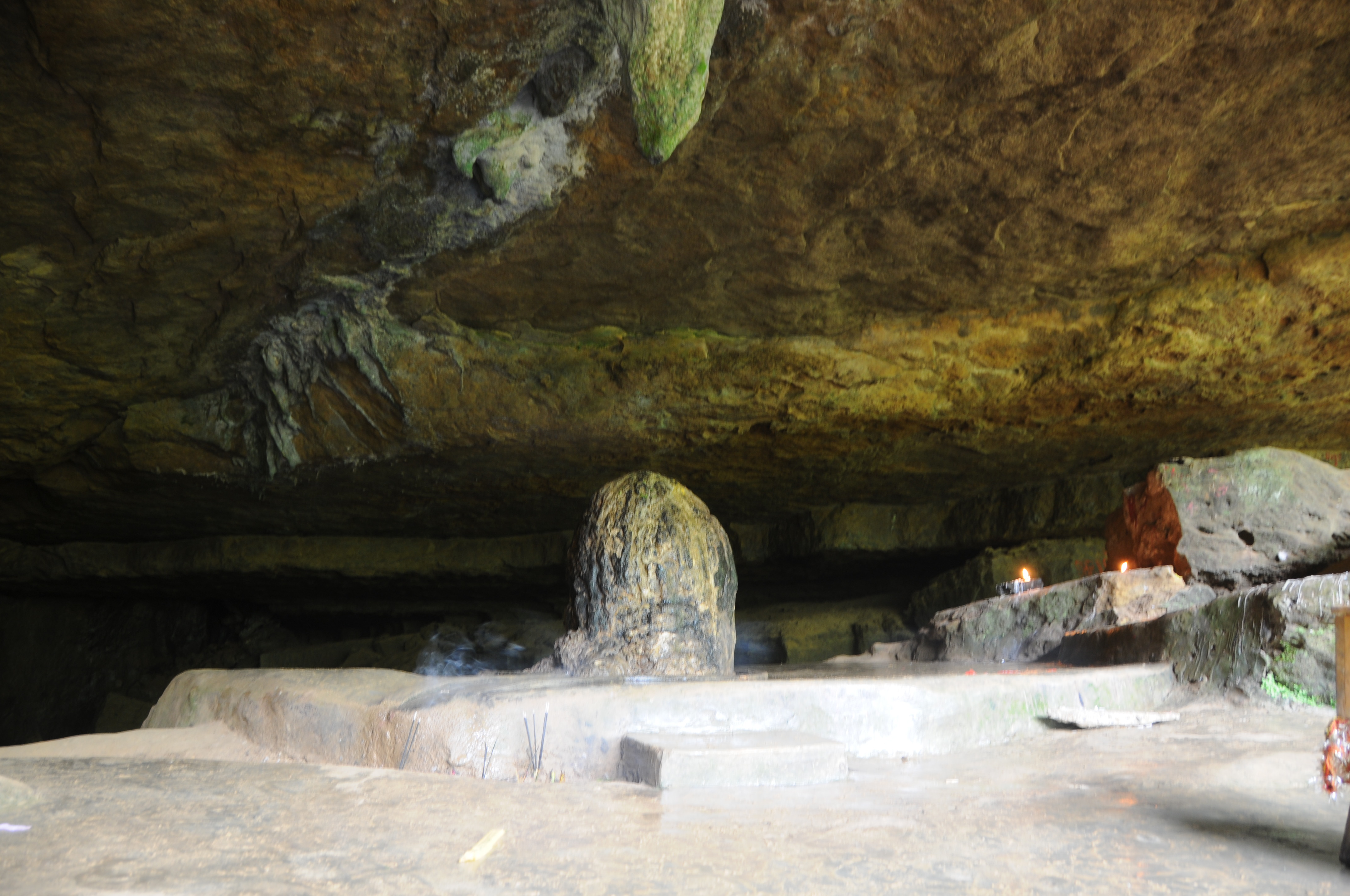 Hatakeswarat Shiv linga made by centuries of precipitation inside a limestone cave. Dongshiling Meghalaya India